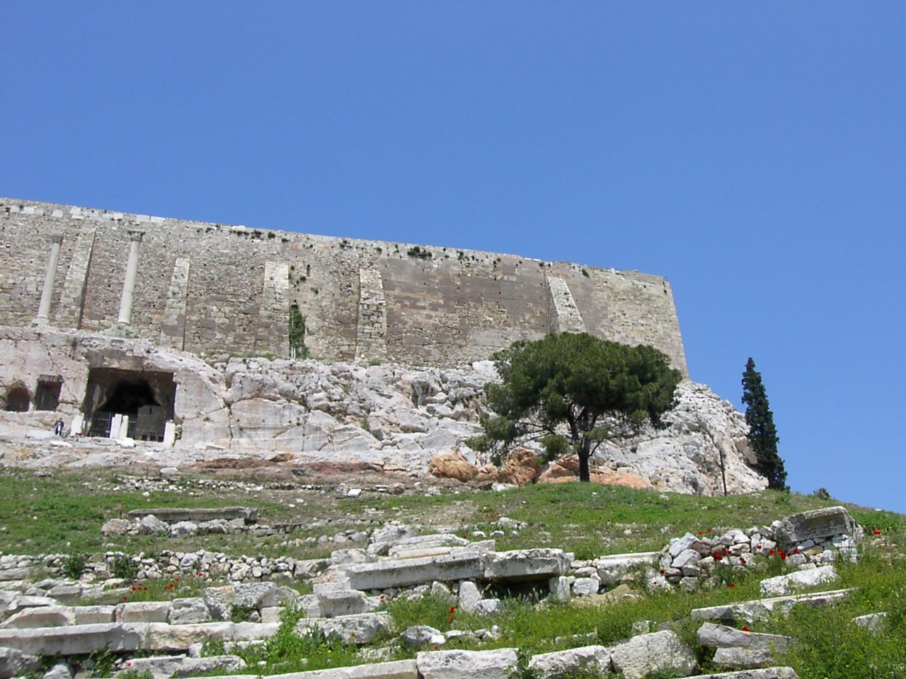 Photo by Adam Carr